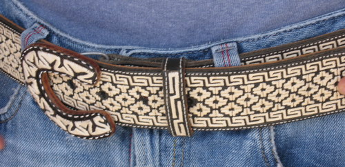 Example of a piteado belt from Colotlan, Jalisco